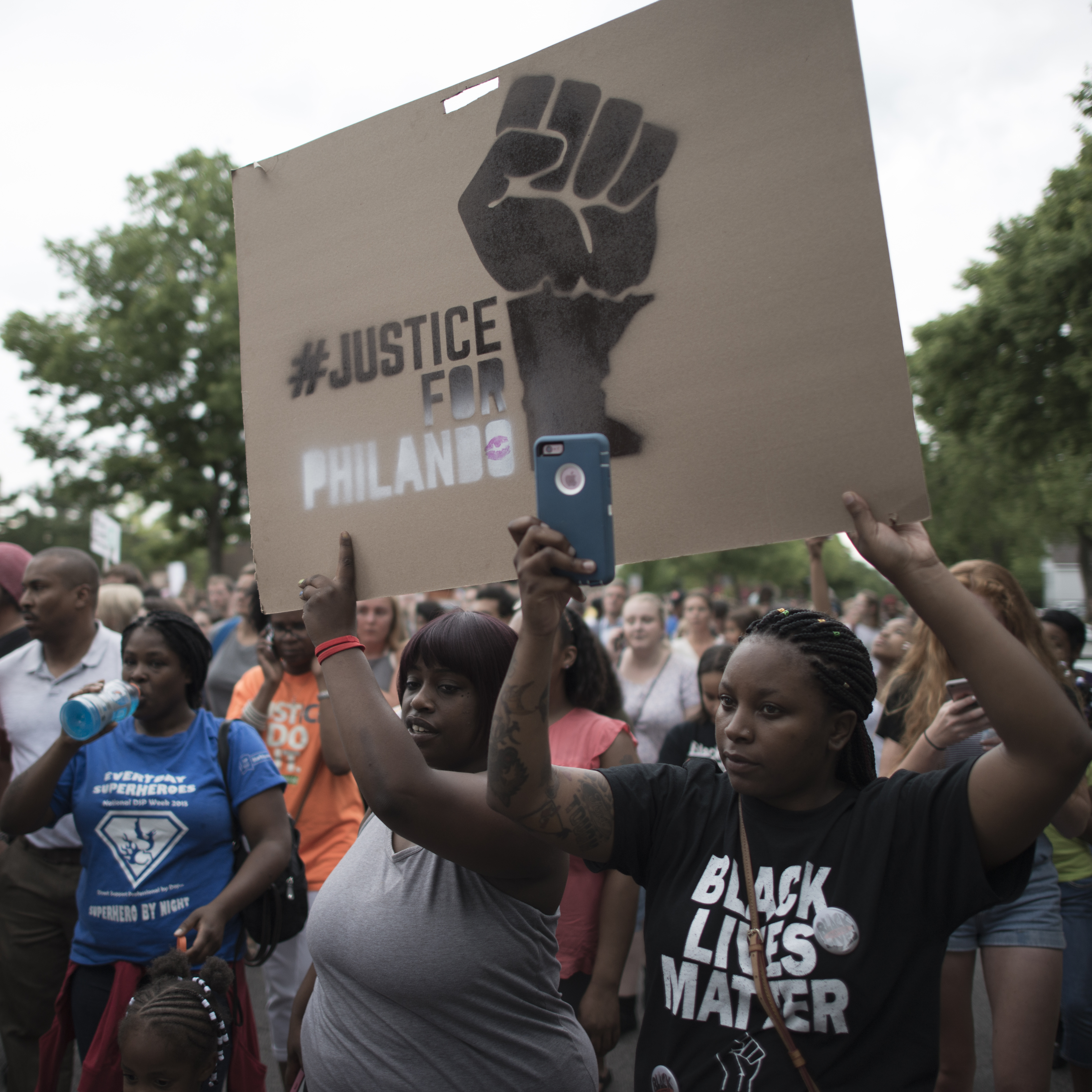 St. Paul, Minnesota July 7, 2016 A few thousand people met in St. Paul the day after Philando Castile was killed. After some speeches, the crowd marched to the Minnesota Governor's Mansion. Philando Castile was shot to death by a St. Anthony Police officer during a traffic stop in Falcon Heights, MN on July 7, 2016. Falcon Heights is a suburb of St. Paul and Minneapolis. 2016-07-07 This is licensed under a Creative Commons Attribution License. Give attribution to: Fibonacci Blue